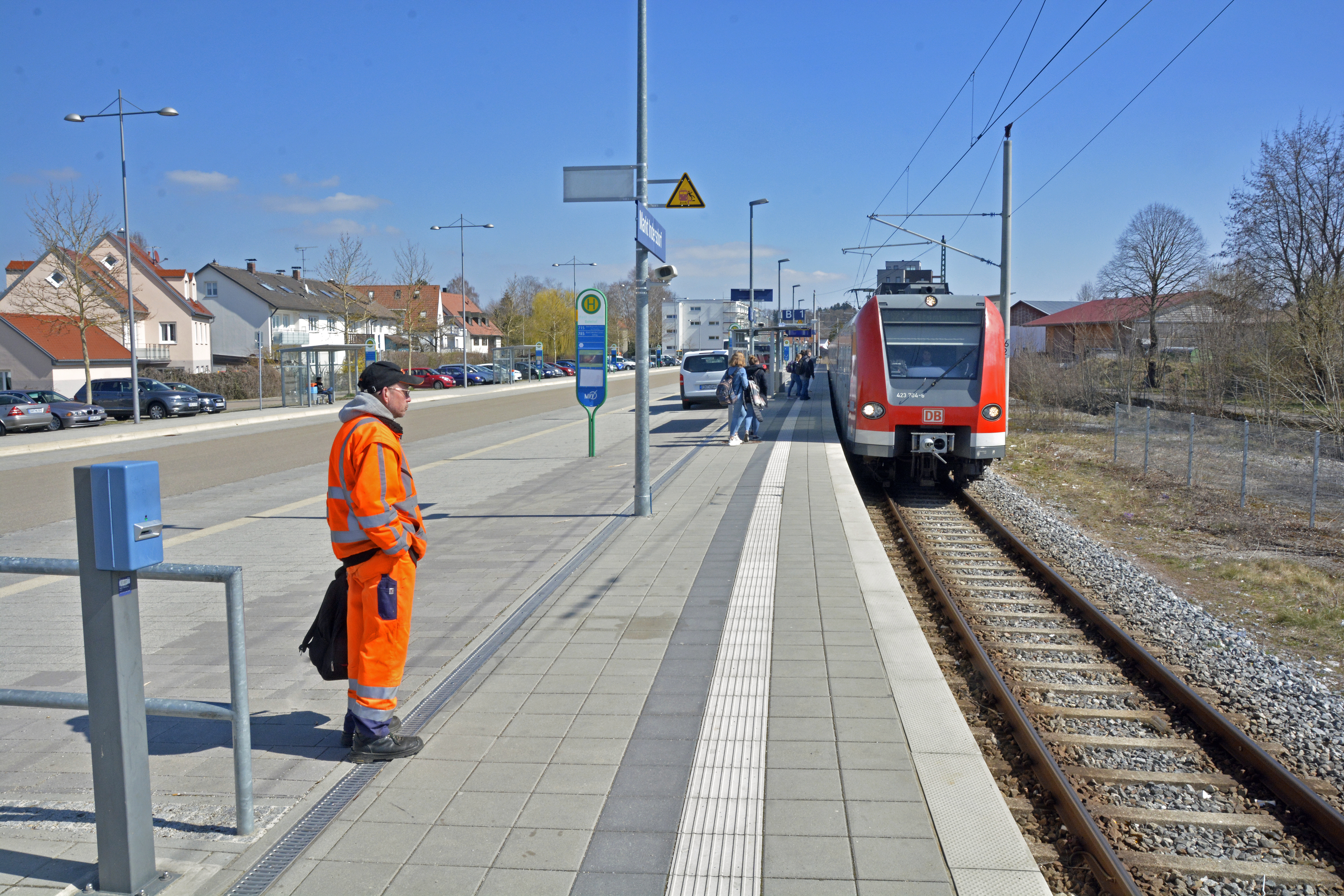 Station and Bus Station Markt Indersdorf (DB stop of the S-Bahn S2 of the MVV)